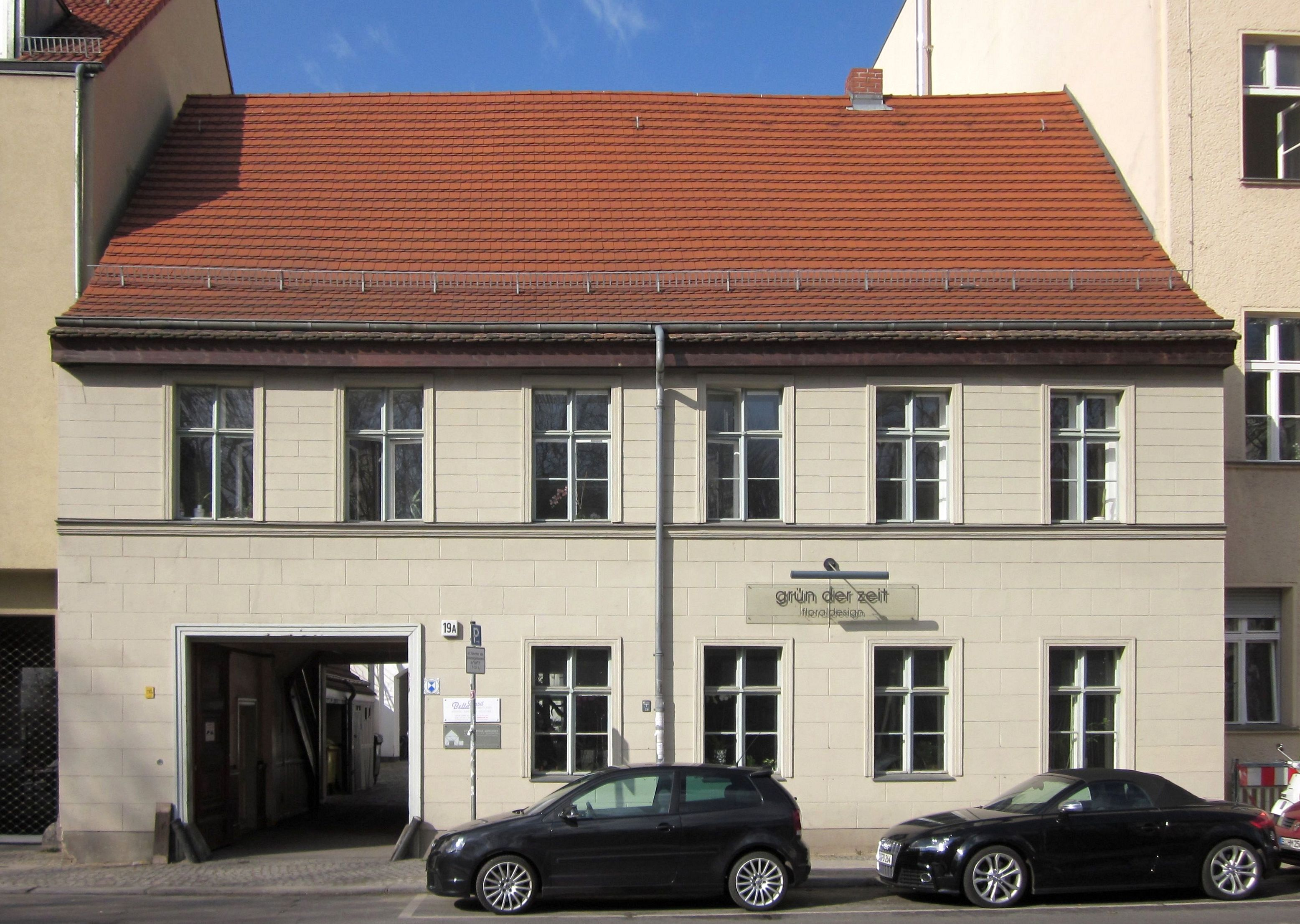 Town house at Große Hamburger Straße 19A in Berlin-Mitte. The core building dates back to 1692, making this one the oldest preserved residential buildings in Berlin. The house was altered in 1827. It has been designated as a historic landmark.